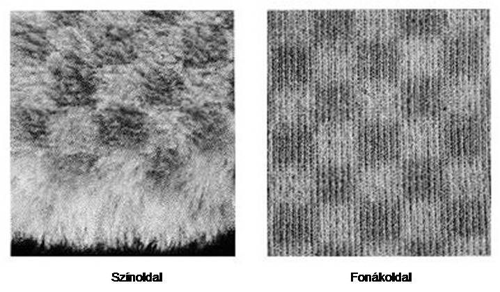 Face and back side of a knitted fake fur (high-pile fabric). Színoldal=aesthetical face, fonákoldal=aesthetical back side.